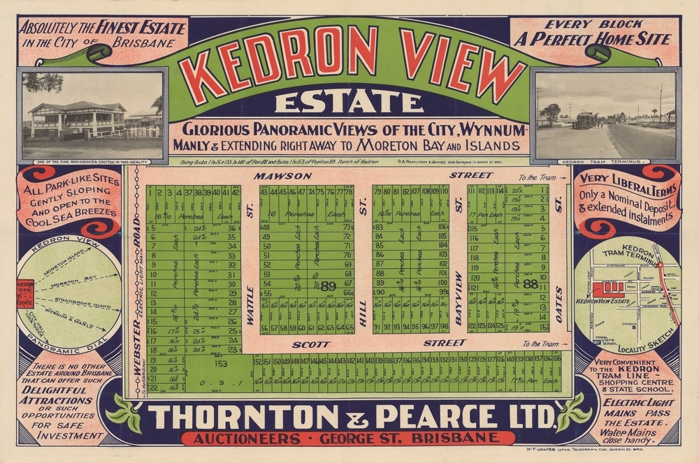 Creator: Thornton & Pearce Ltd., Auctioneers ; R.A. Hamilton & James, Surveyors. Location: Stafford Heights, Brisbane, Queensland. Description: Estate covers area now in Kedron and Stafford Heights. Plan of allotments to be sold. Land for sale is subdivision 1 to 15 and 135 to 140 of portion 88 and subdivisions 1 to 153 of portion 89. Parish of Kedron. Includes 2 b&w photographs of area. Published by H.T. James lithographer (Brisbane). 48 x 72 cm. Map includes conditions of purchase, locality map, 2 b&w photographs and a brief description of the land and utlities available. Read more about SLQ's map collections: View this image at the State Library of Queensland: Information about State Library of Queensland’s collection: You are free to use this image without permission. Please attribute State Library of Queensland.